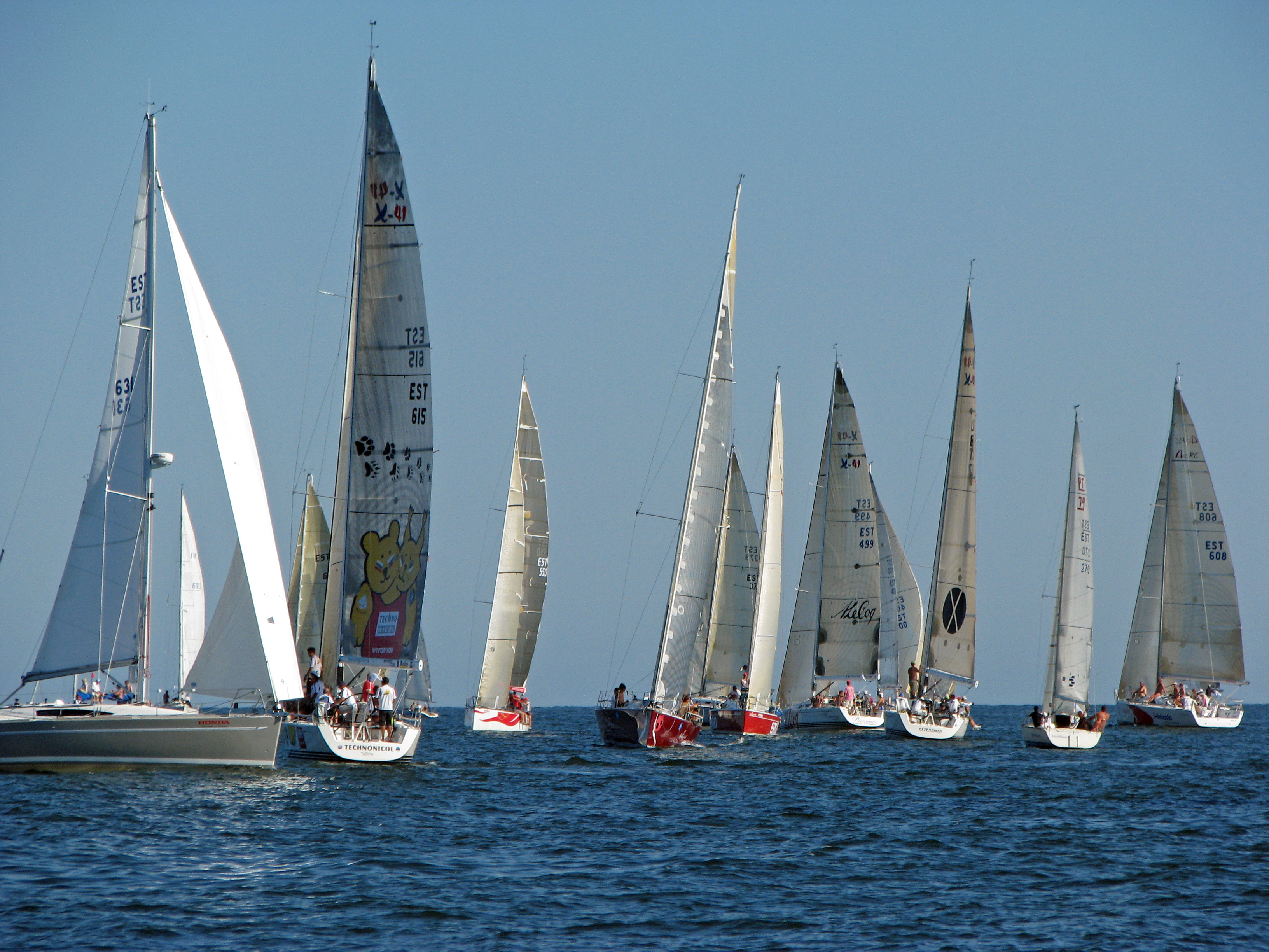 The Moonsund Regatta 2010